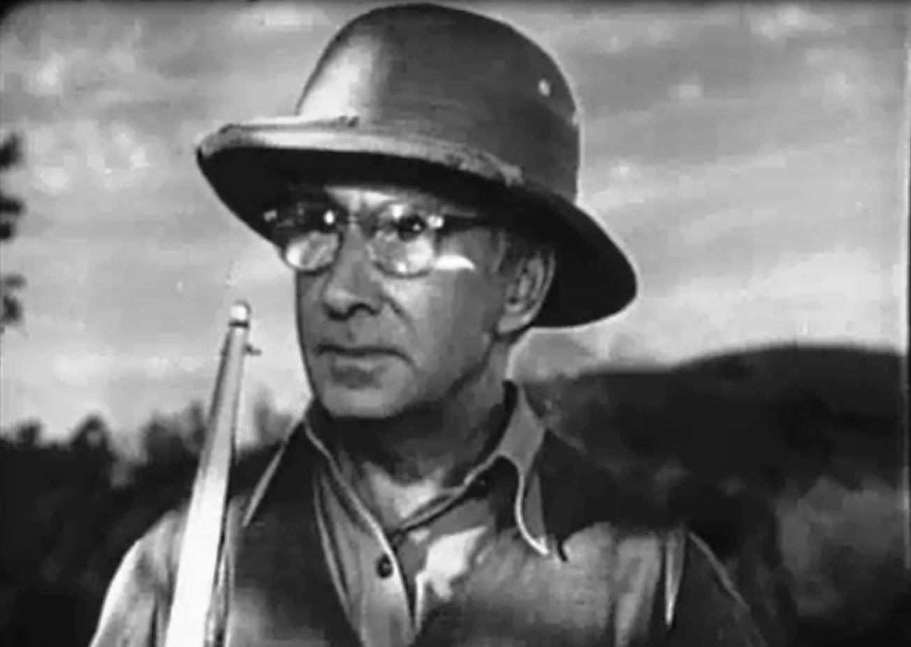 Low resolution screenshot of Wilson Benge as the Professor in the American public domain film Queen of the Amazons (1947).